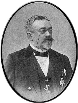 Alexey Sergeyevich Yermolov